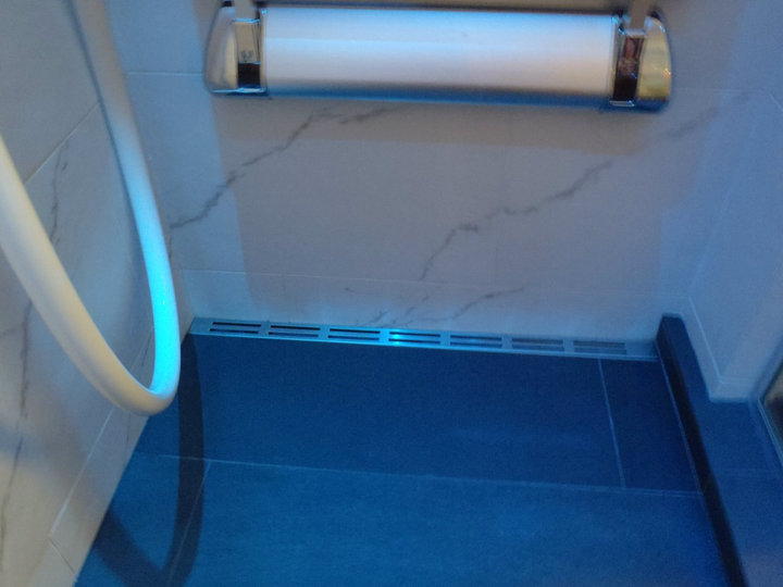 A look at a channel drain from Quick Drain USA. This channel drain shows to use of large format tile and one way pitch in custom shower construction.